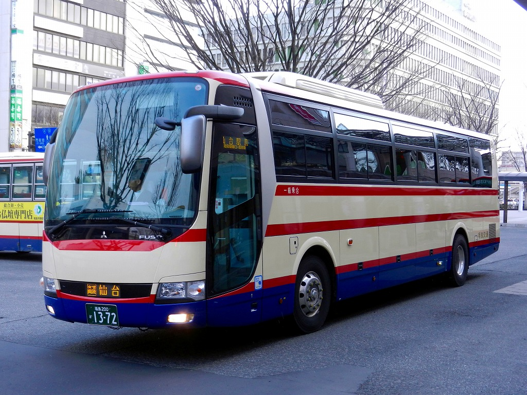 Fukushima Kotsu Mitsubishi Fuso Aero Ace (LKG-MS96VP) highwaybus "Fukushima-Sendai"